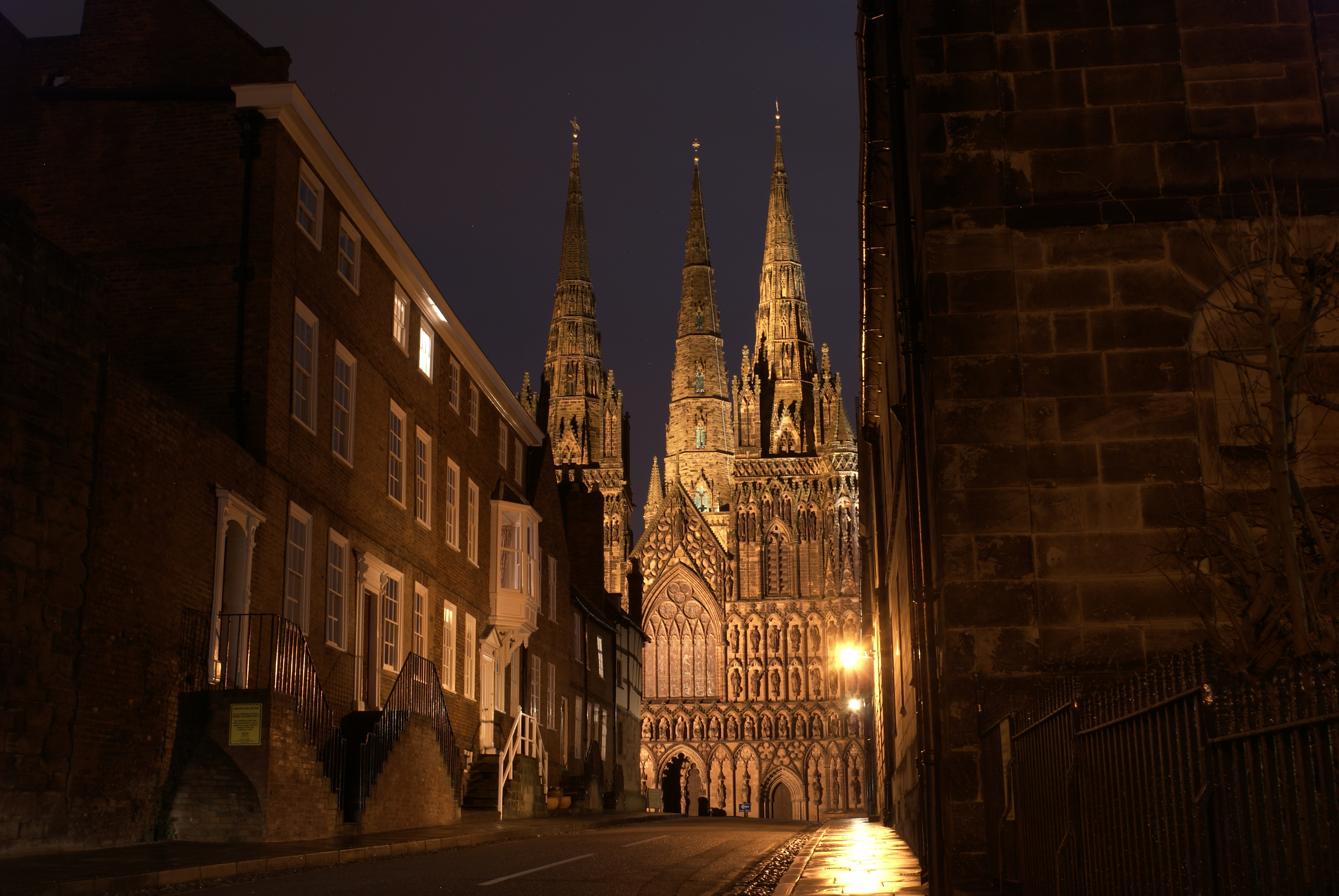 The entrance to Cathedral Close, Lichfield, illustrating historic buildings and Lichfield Cathedral.